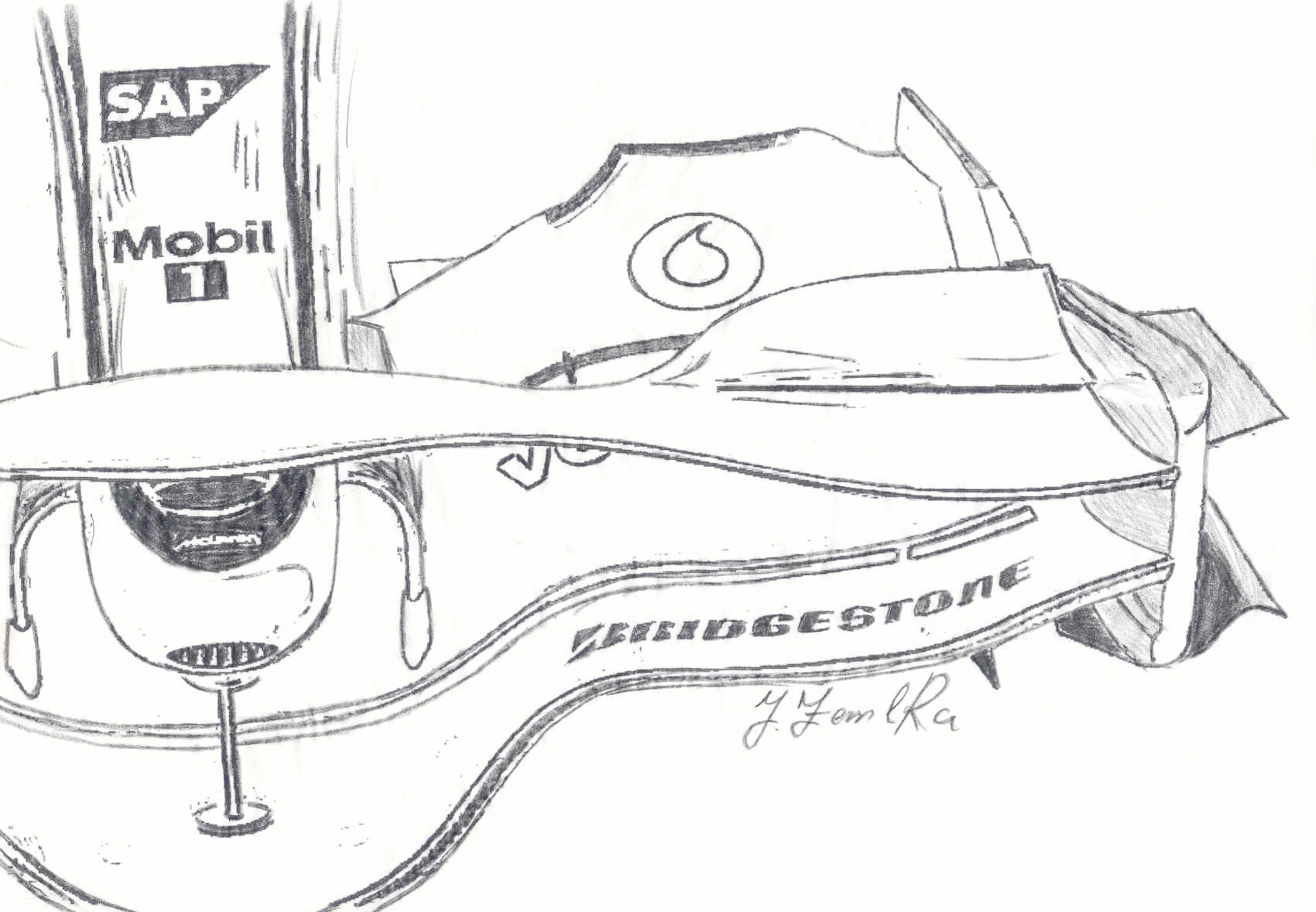 McLaren MP4-23 front wing revisions